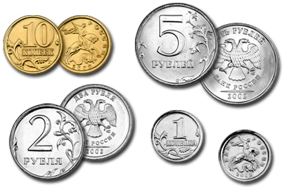 Rouble coins